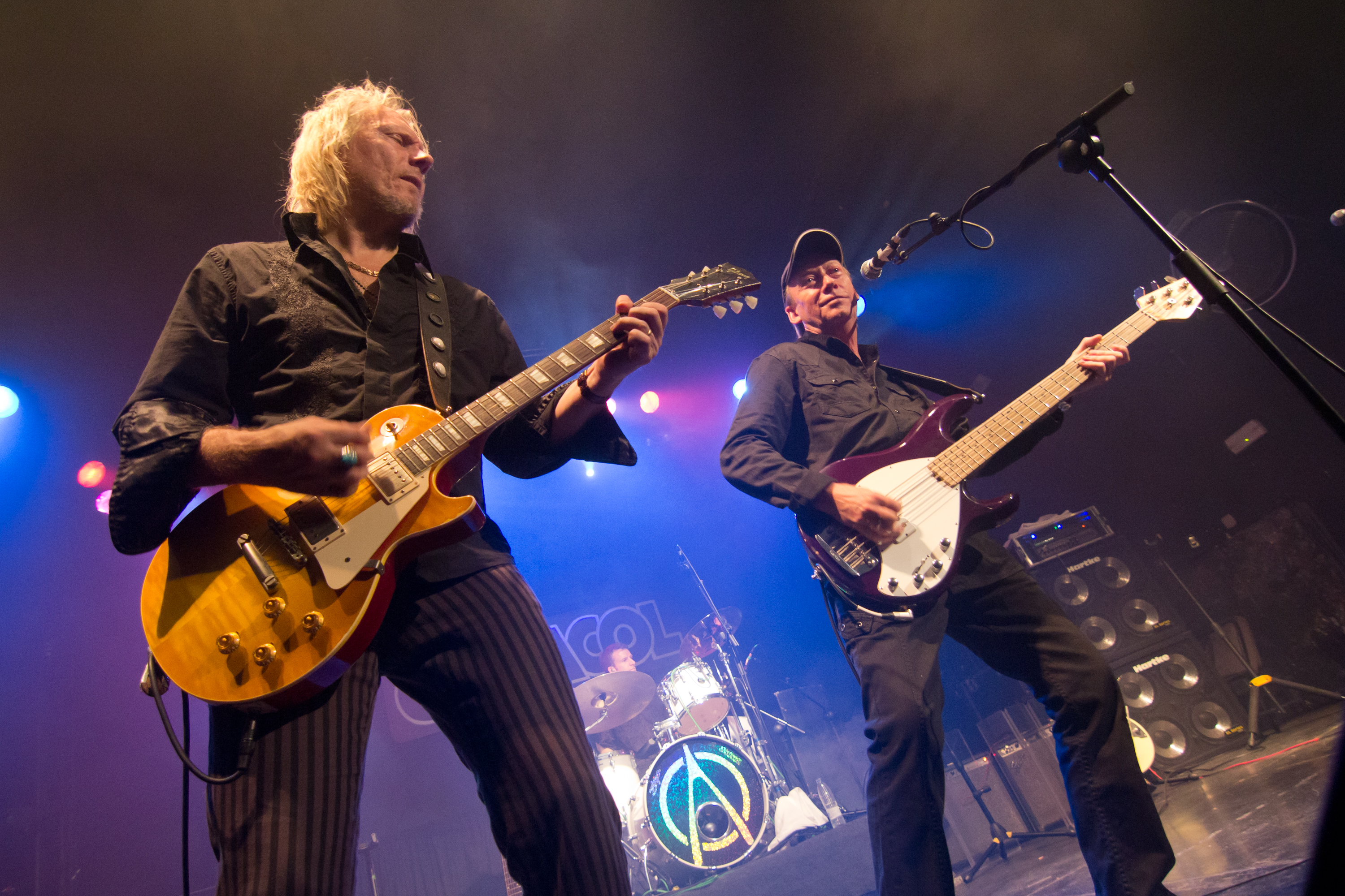 Rock band Wishbone Ash live in Madrid, Spain.